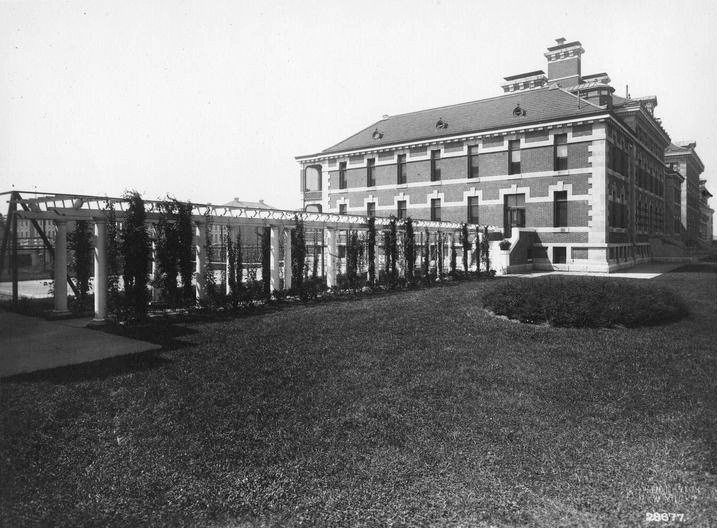 The Ellis Island Immigrant Hospital, on the south side of the island was a complex of buildings which served arrivals at the immigration station, and since it closure in 1957 remains unused and varying states of deterioration, and unaccessible to the public.